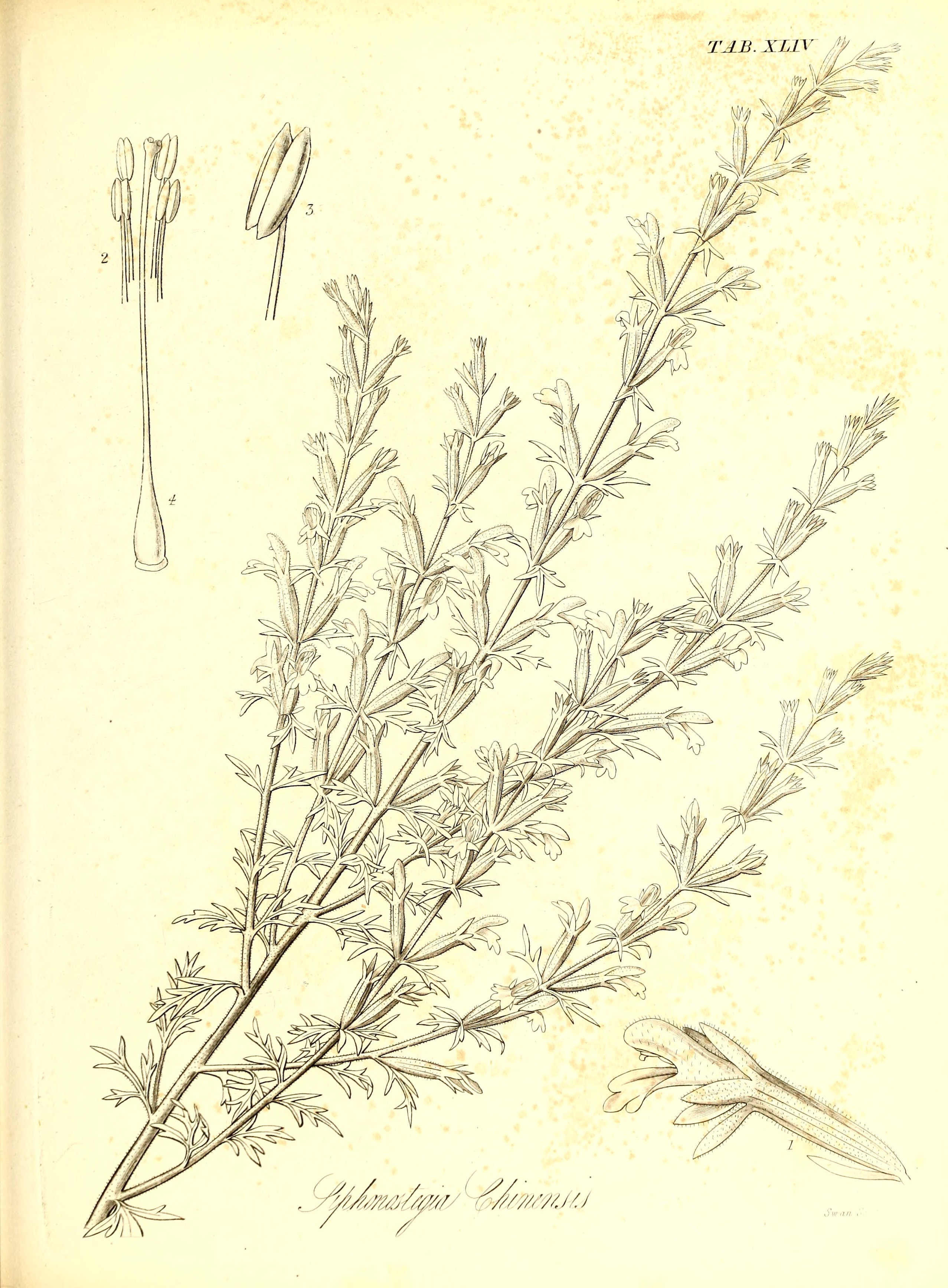 Title: The botany of Captain Beechey's voyage; comprising an acount of the plants collected by Messrs. Lay and Collie, and other officers of the expedition, during the voyage to the Pacific and Behring's Strait, performed in His Majesty's ship Blossom, under the command of Captain F. W. Beechey ... in the years 1825, 26, 27, and 28 Year: 1841 (1840s) Authors: Hooker, William Jackson, Sir, 1785-1865; Arnott, George Arnott Walker, 1799-1868, joint author; Beechey, Frederick William, 1796-1856 Subjects: Blossom (Ship); Botany; Botany; Botany Publisher: London, H. G. Bohn Text Appearing Before Image: ' Text Appearing After Image: '